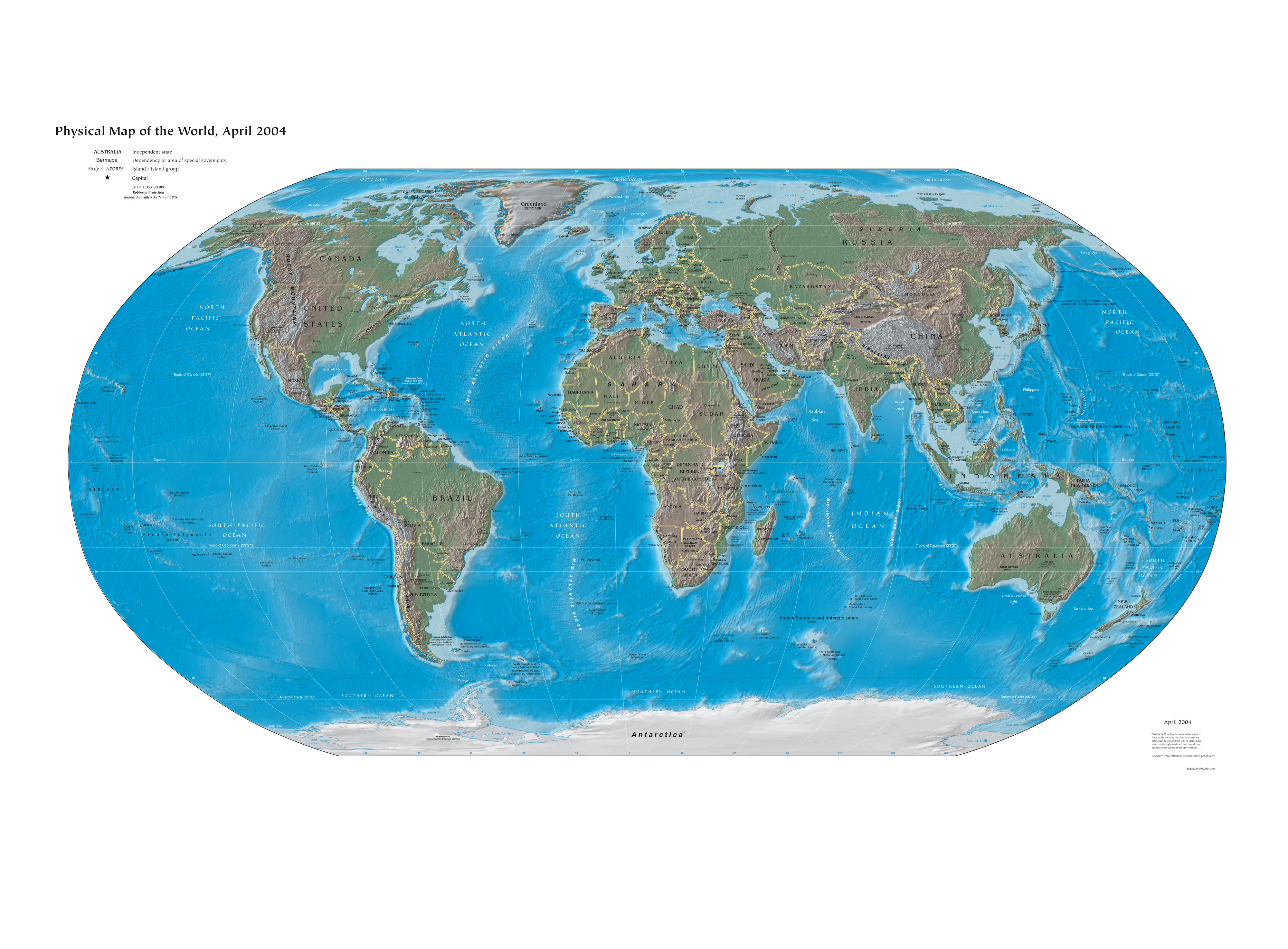 Physical World Map; Robinson projection; Standard parallels 38°N and 38°S.